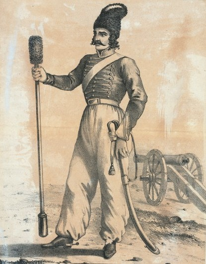 Persian 19th Century Soldiers